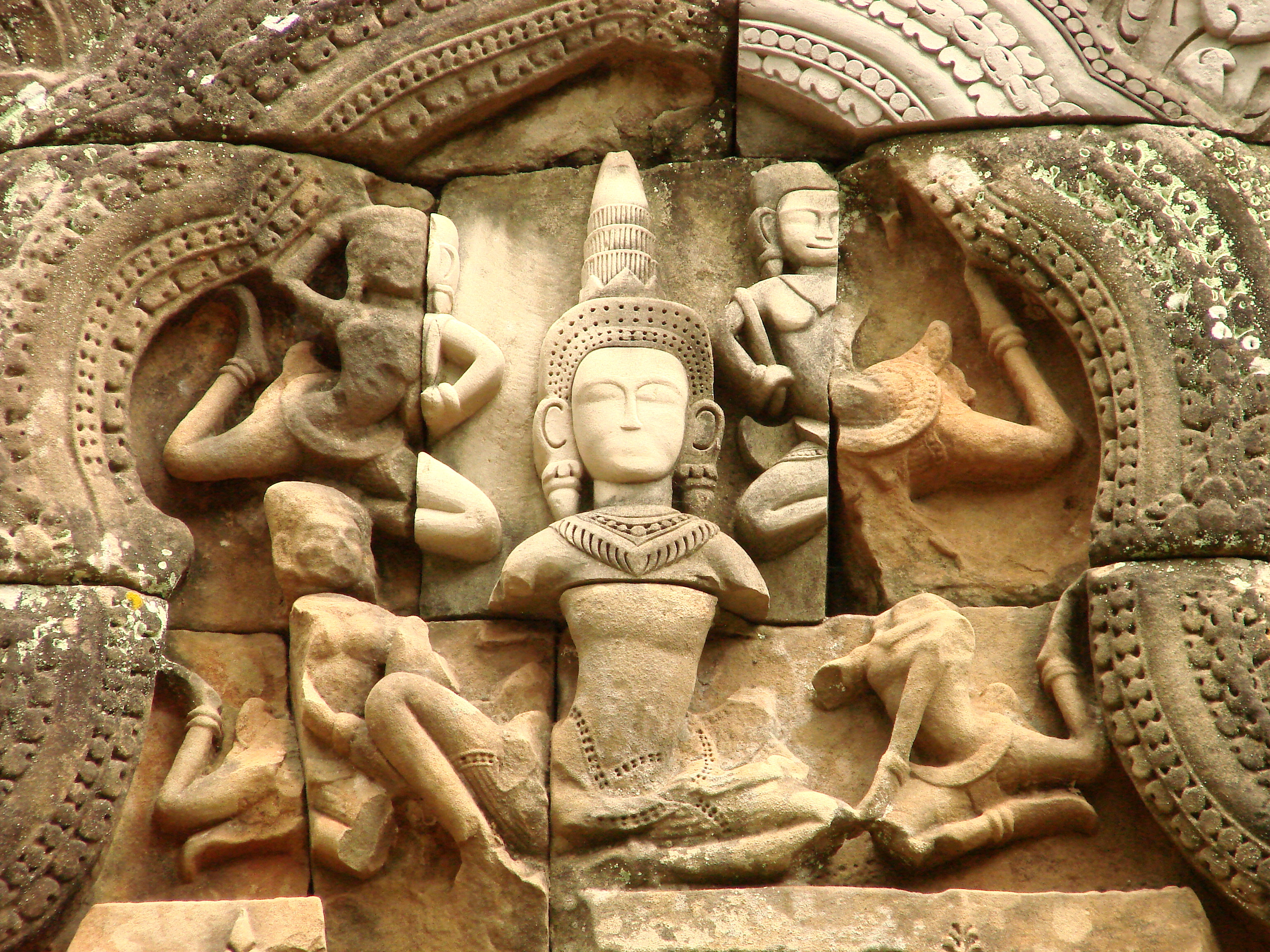 Sculpture at Ta Keo temple, Angkor, Cambodia. May 2009.